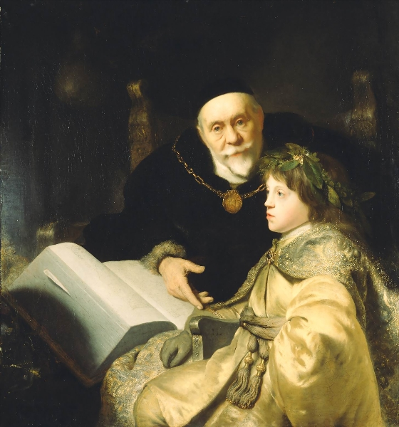 Prince Charles Louis with his Tutorlabel QS:Len,"Prince Charles Louis with his Tutor"